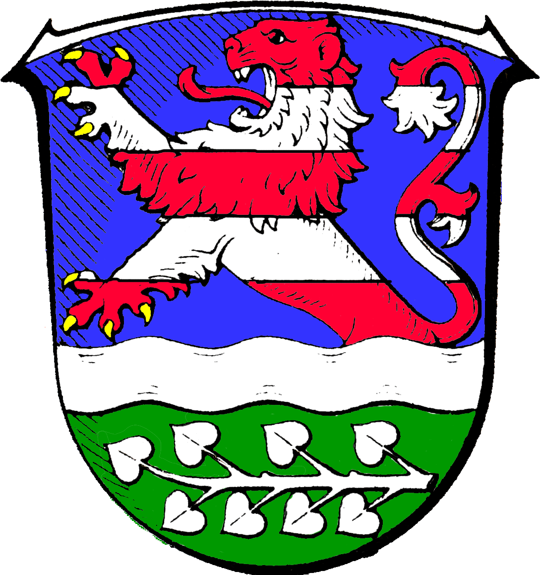 Coat of Arms of Neuental